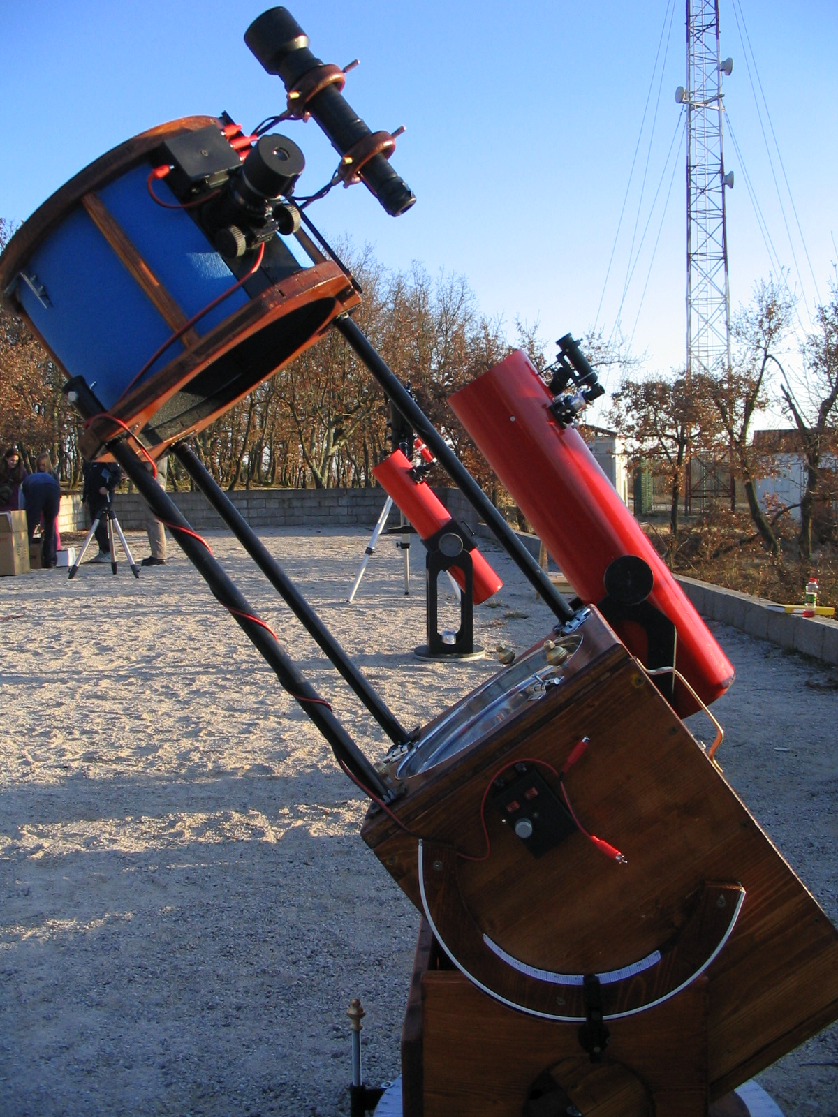 Home made dobsonian at Messier marathon in Višnjan, Croatia. The scope is made by Beri, Okrug Gornji, Čiovo, Croatia.